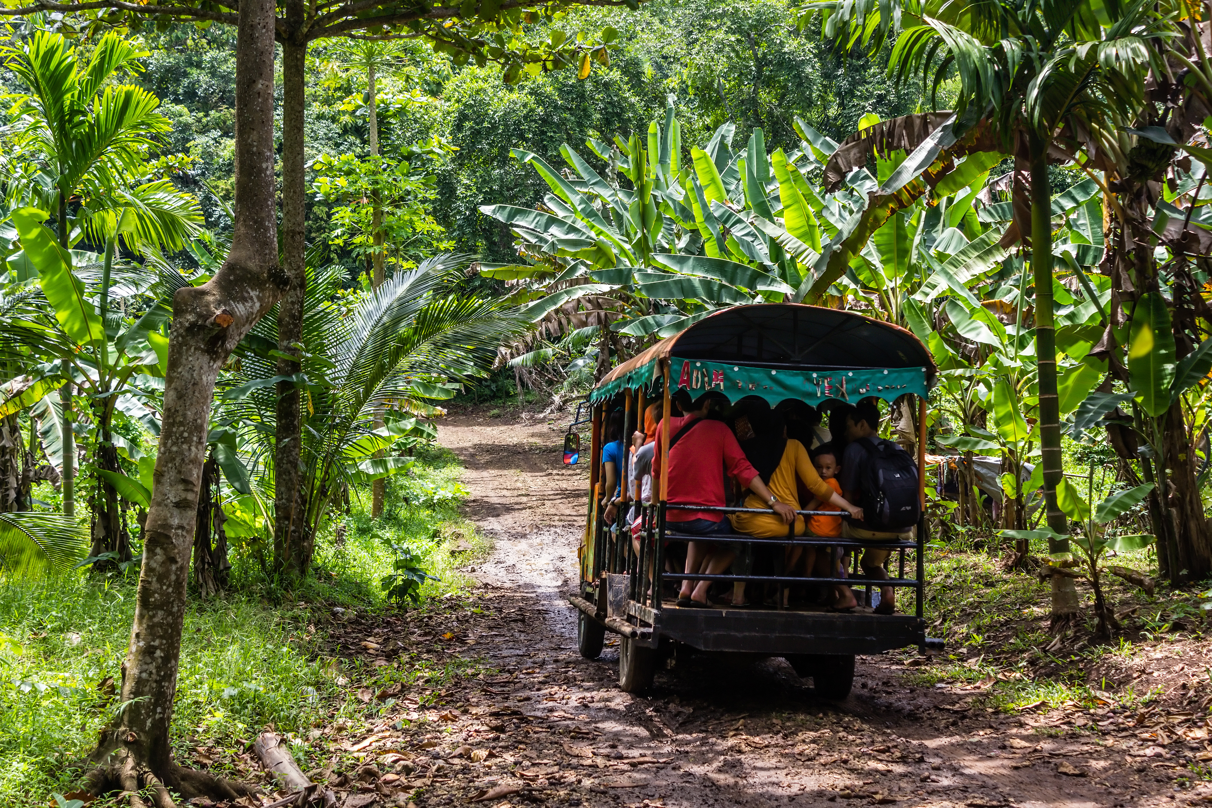 Transport to Karang Bolong Beach, Cilacap 2015-03-21